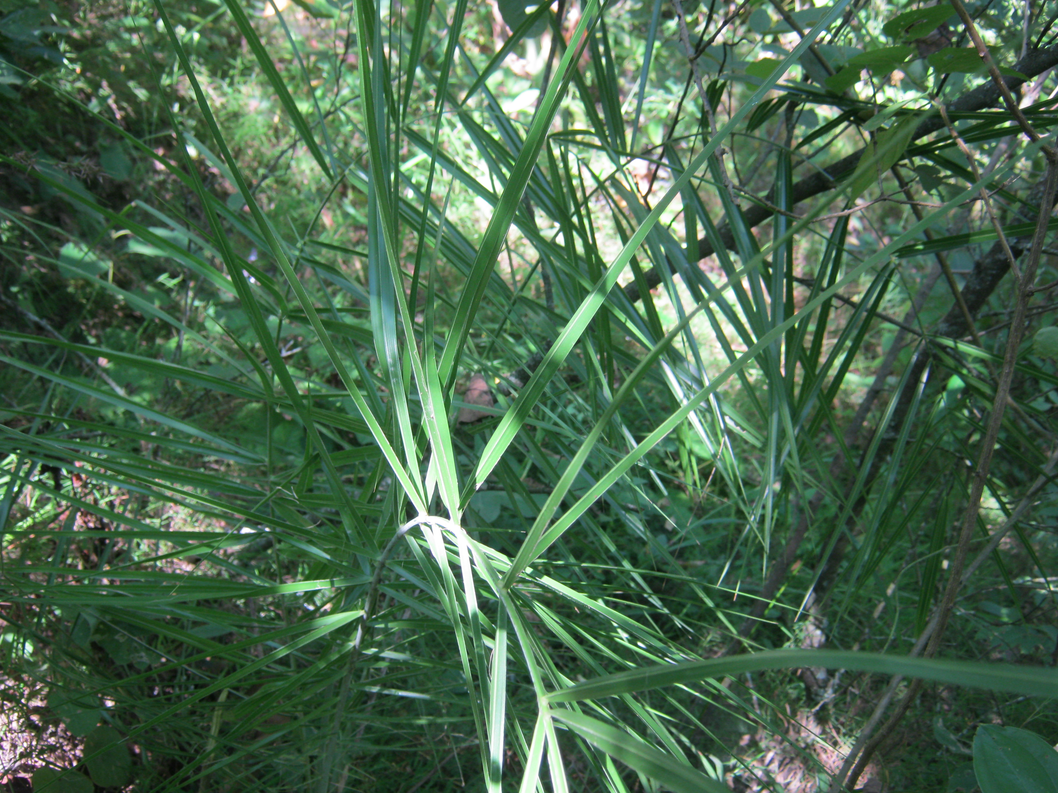 Phoenix humilis Royle ex Becc., nom. illegit., = Phoenix loureiroi Kunth; found in the jungle of Panchkhal VDC, Nepal.